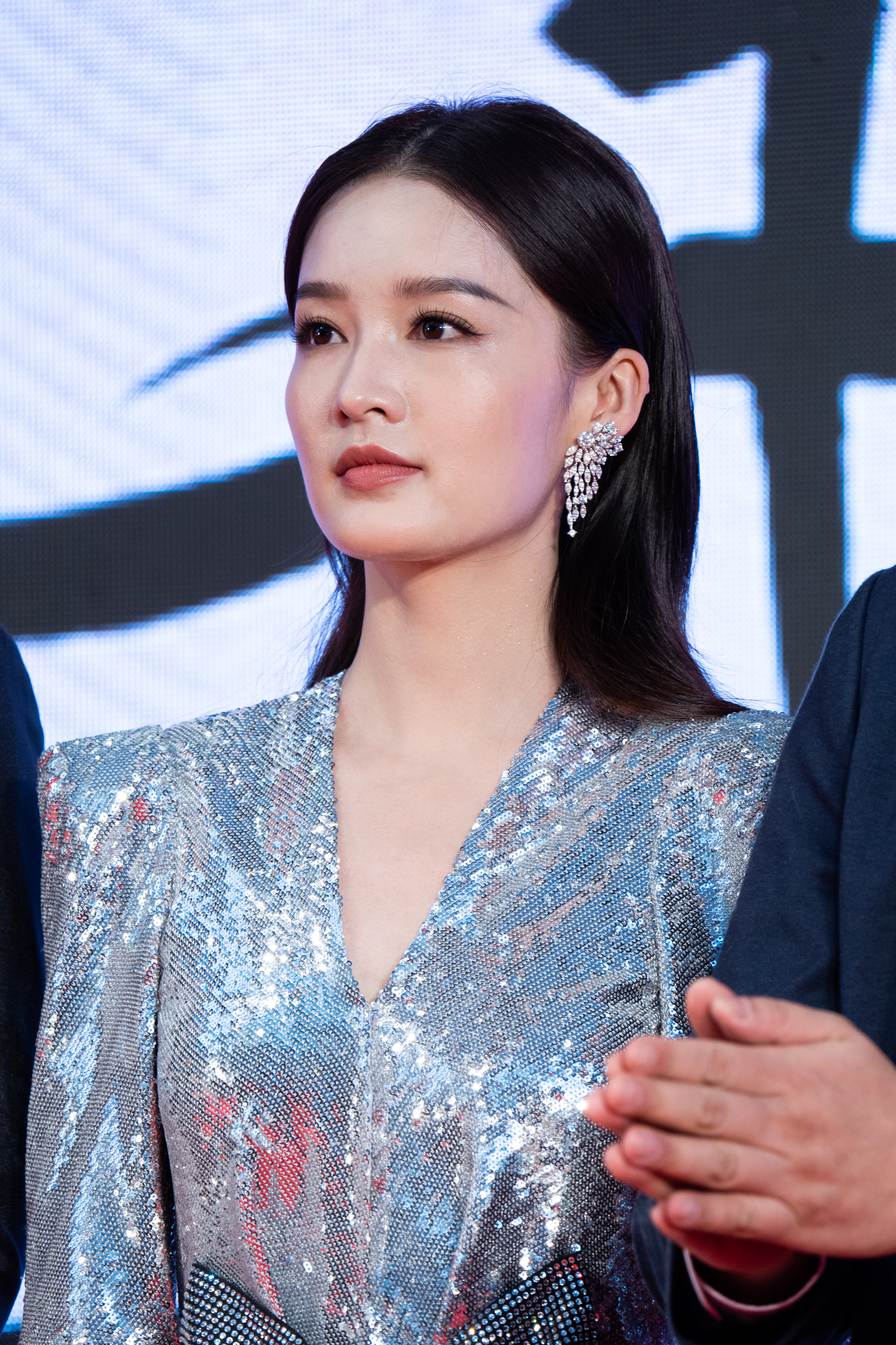 Li Qin from "China Film Week in Tokyo 2019" at Opening Ceremony of the Tokyo International Film Festival.